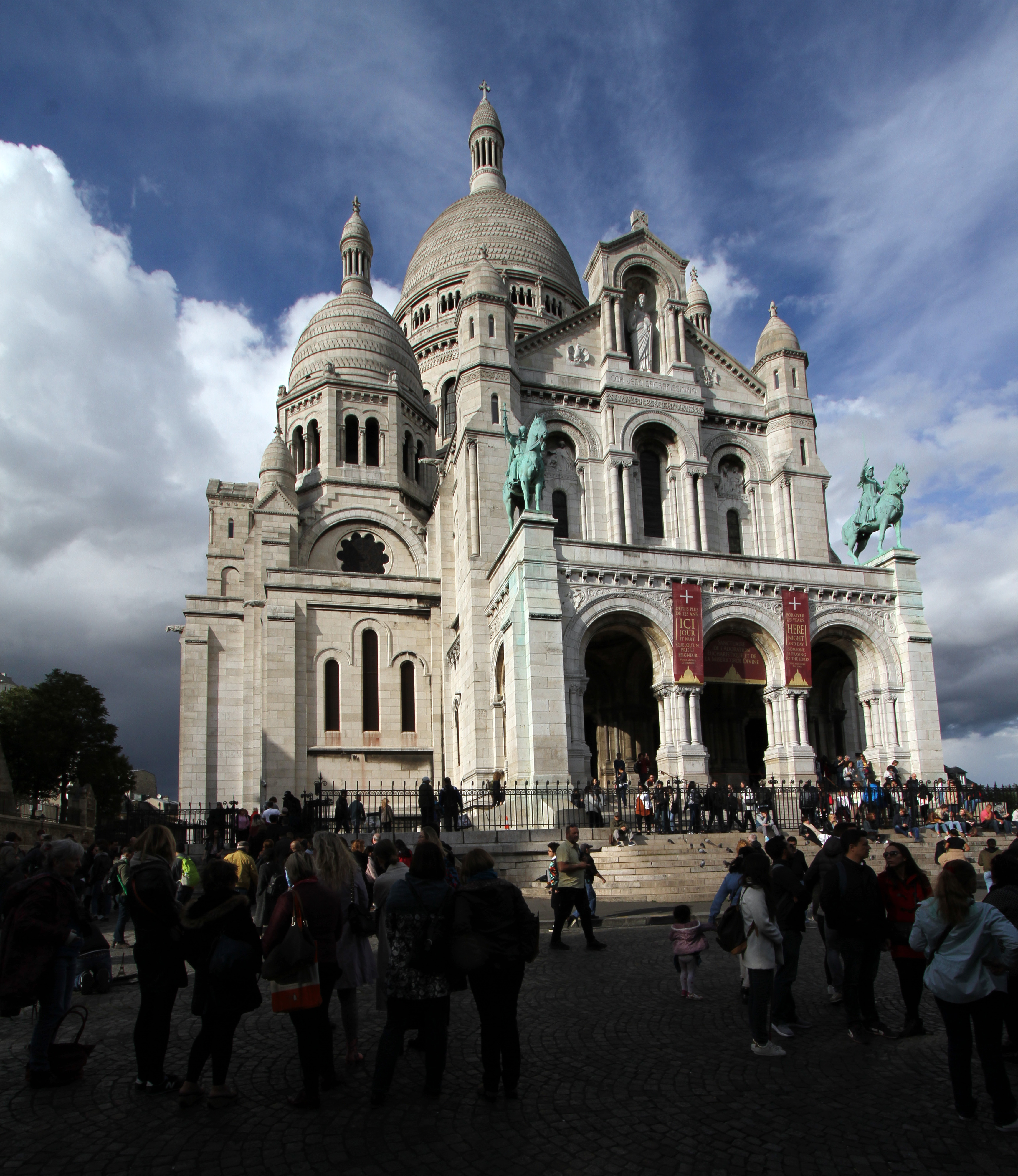 Basilica du Sacré-Cœur de Montmartre